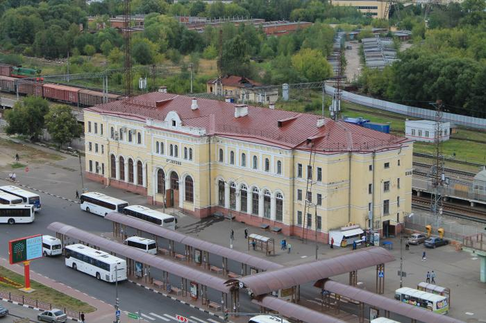 Вокзал Серпухов